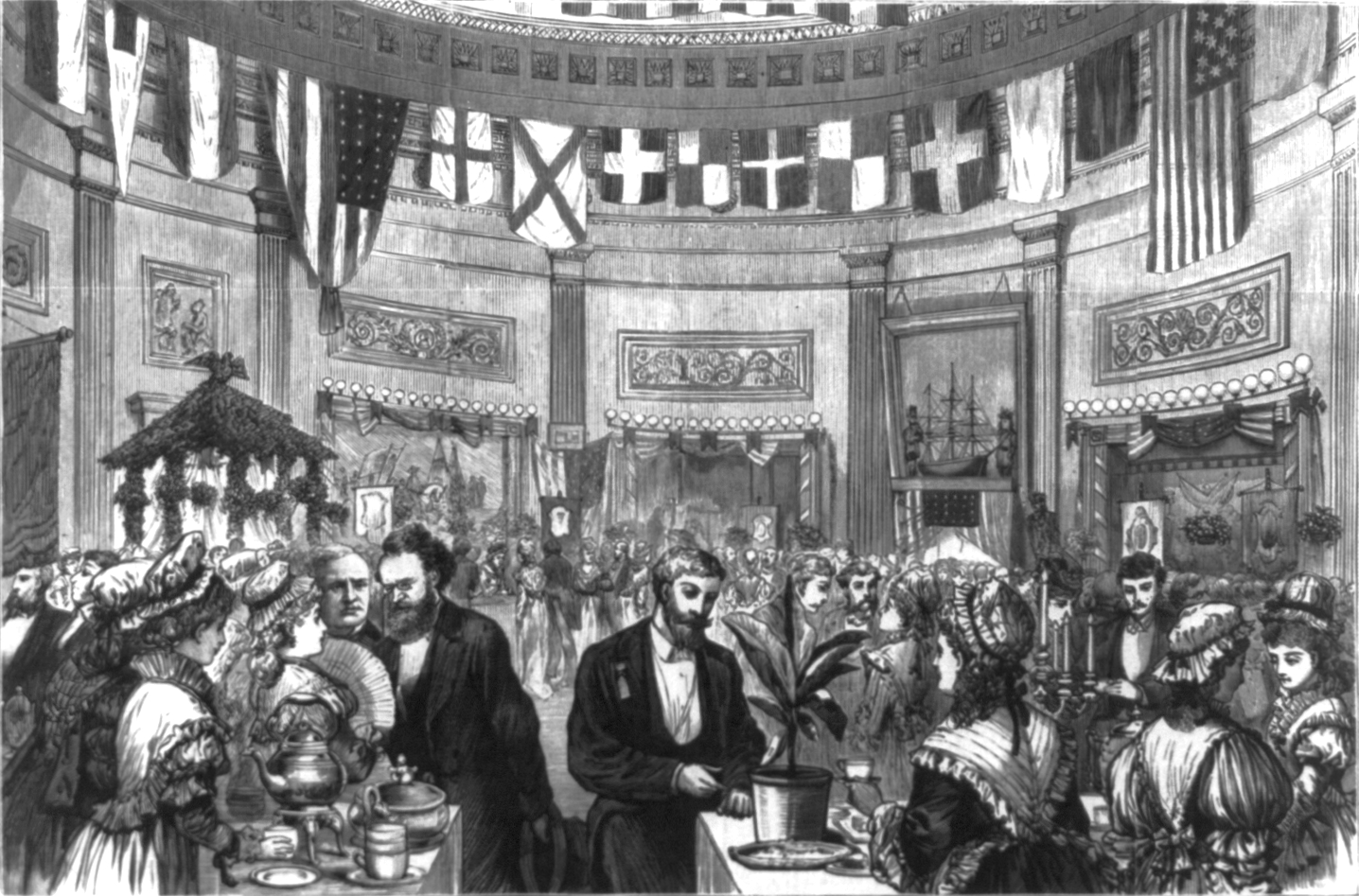 Centennial Tea Party in Rotunda of U.S. Capitol, Washington, Wednesday evening, Dec. 16, 1875 Notes: Man with eyeglasses to left of center appears to be Carl Schurz